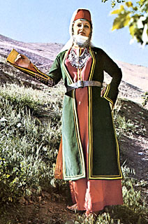 Taraz (national costume) of Zangezur (Siuniq) -- 18th c.